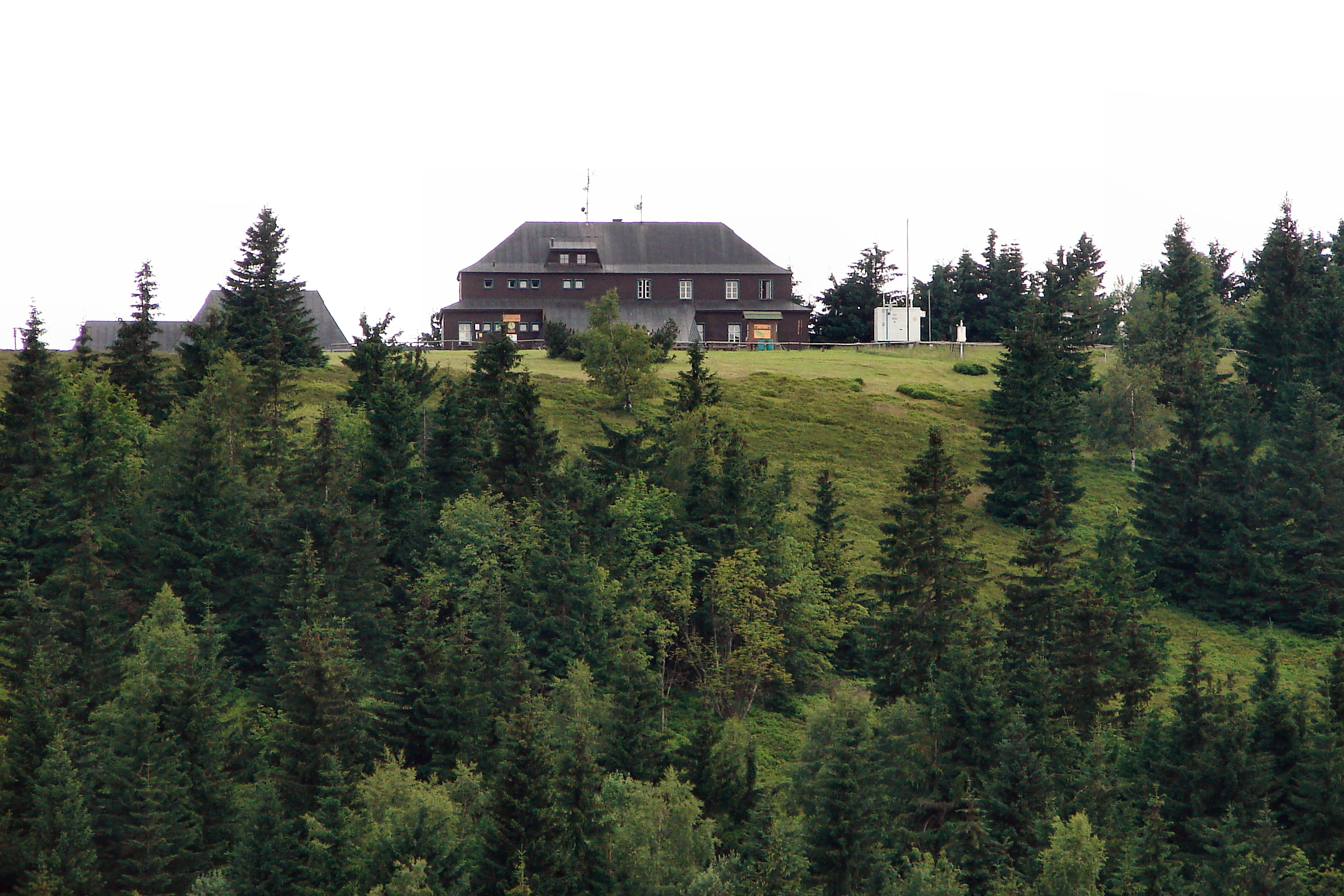 Rýchorská bouda on top of the mountain Kutná in the Giant Mountains (Krkonoše).